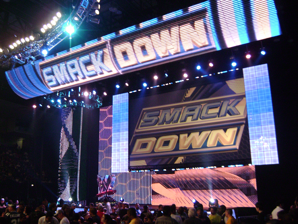 WWE Smackdown Hi-Definition Stage